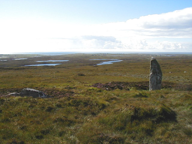 Beinn a' Charra Standing Stone. looking west